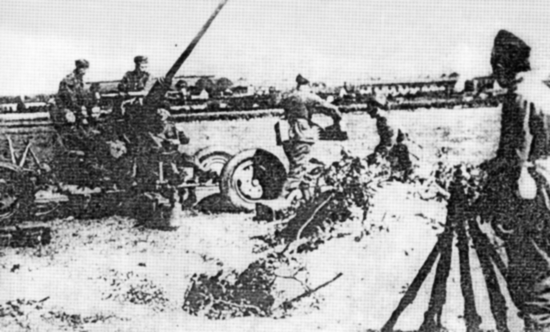 Polish antiaircraft artilery in Lviv 1939